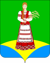 Coat of arms of Anastasiyevskaya, Krasnodar Krai, Russia